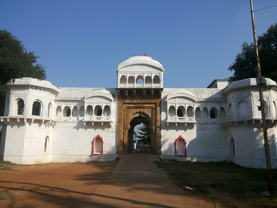 This is the main gate of Naigarhi fort and holds a historical significance.